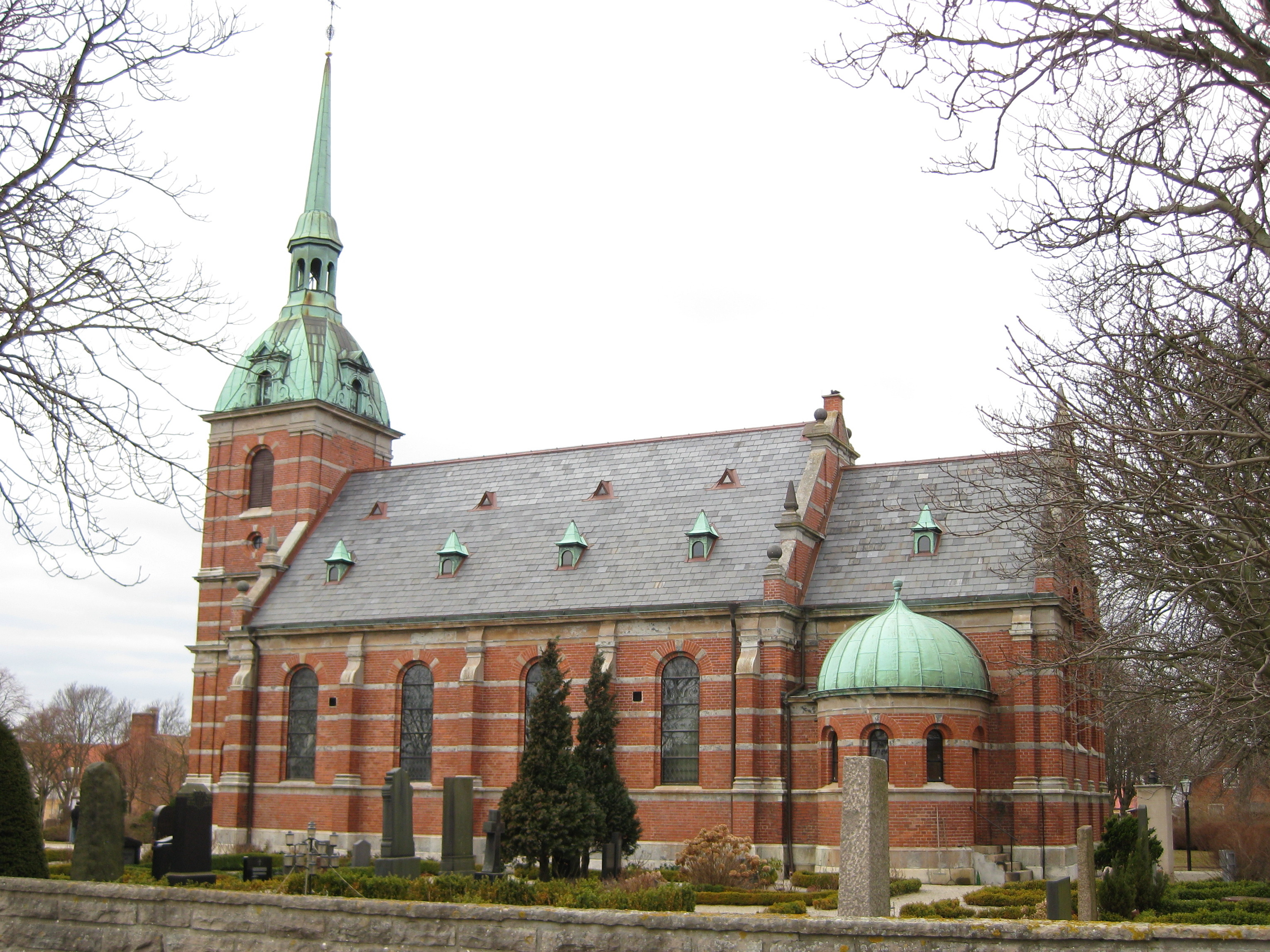 Stora Hammar church, Skåne, Sweden